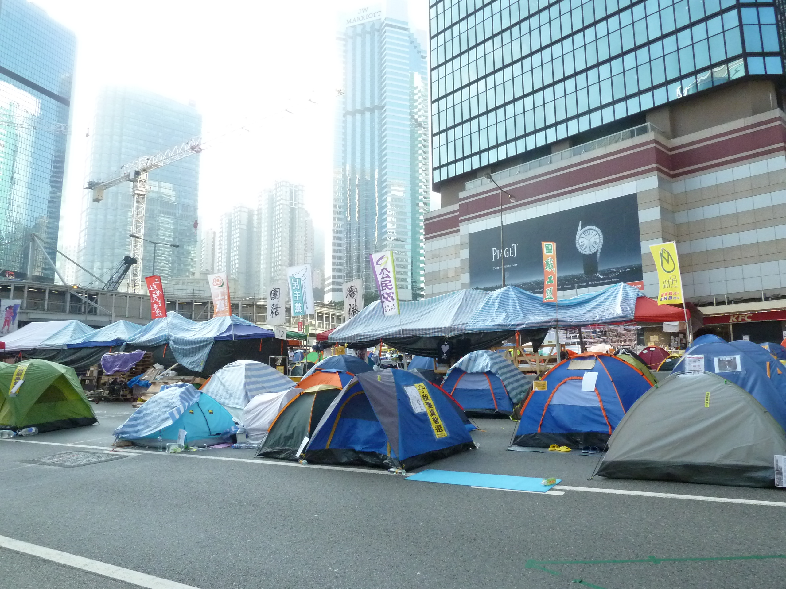 Hong Kong protests, 21 November 2014. Banners flying represent the Labour Party, Democratic Party, Civic Party, CTU and ADPL